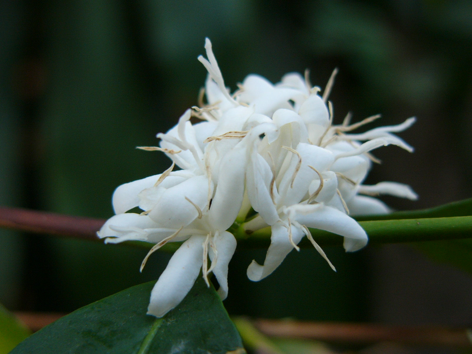 Coffea Arabica flowers, in Brazil - Sep 2006